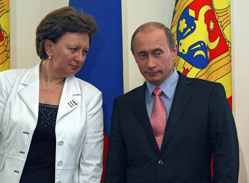 Russian Prime Minister Vladimir Putin met with Prime Minister of the Republic of Moldova Zinaida Greceanii